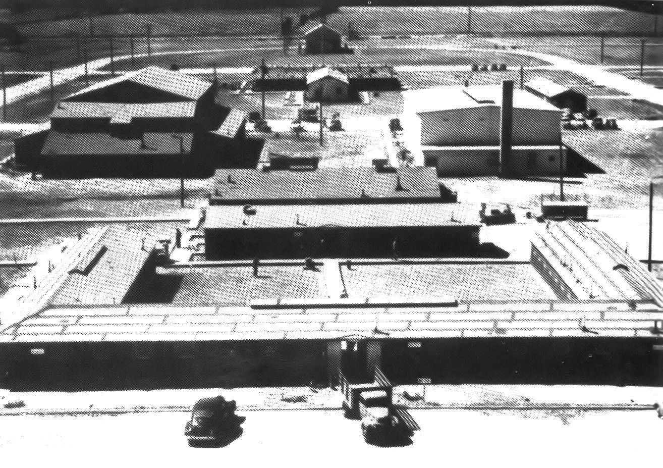 Coffeyville AAF PX Rec Center Movie Theater 1945